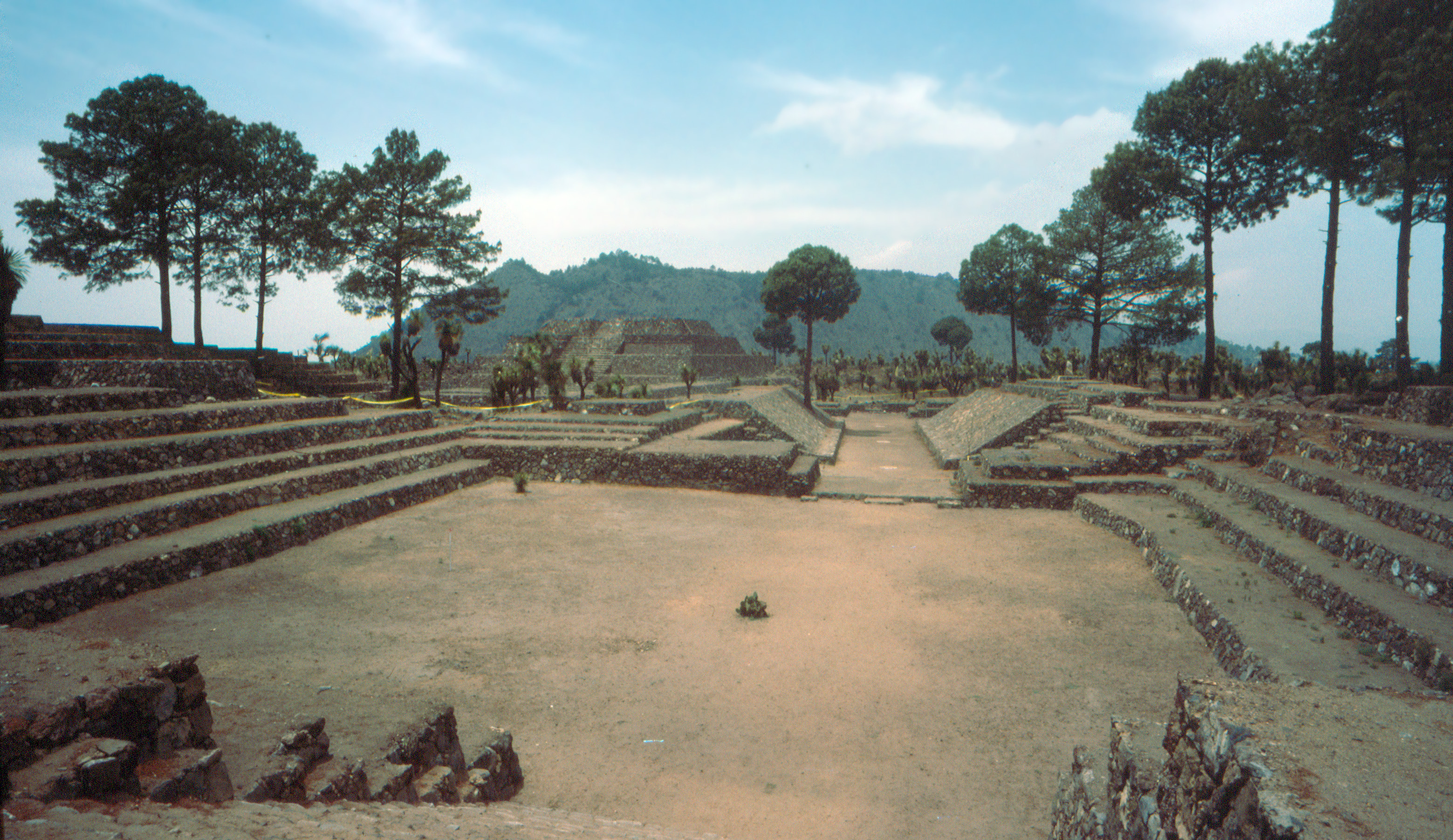 Cantona, Puebla, Mexico: Courtyard and ball court